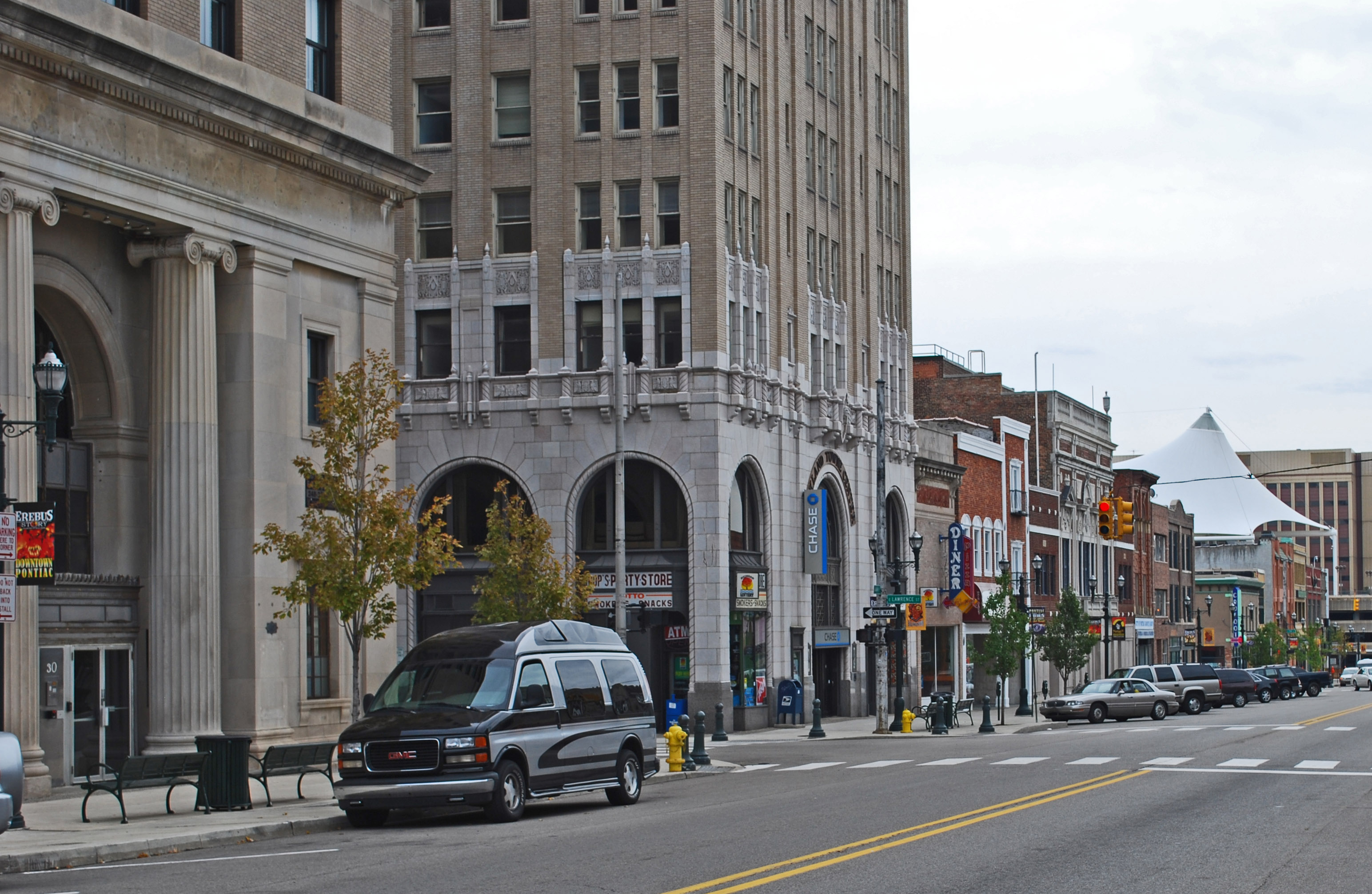 Pontiac Commercial Historic District, N. and S. Saginaw Street